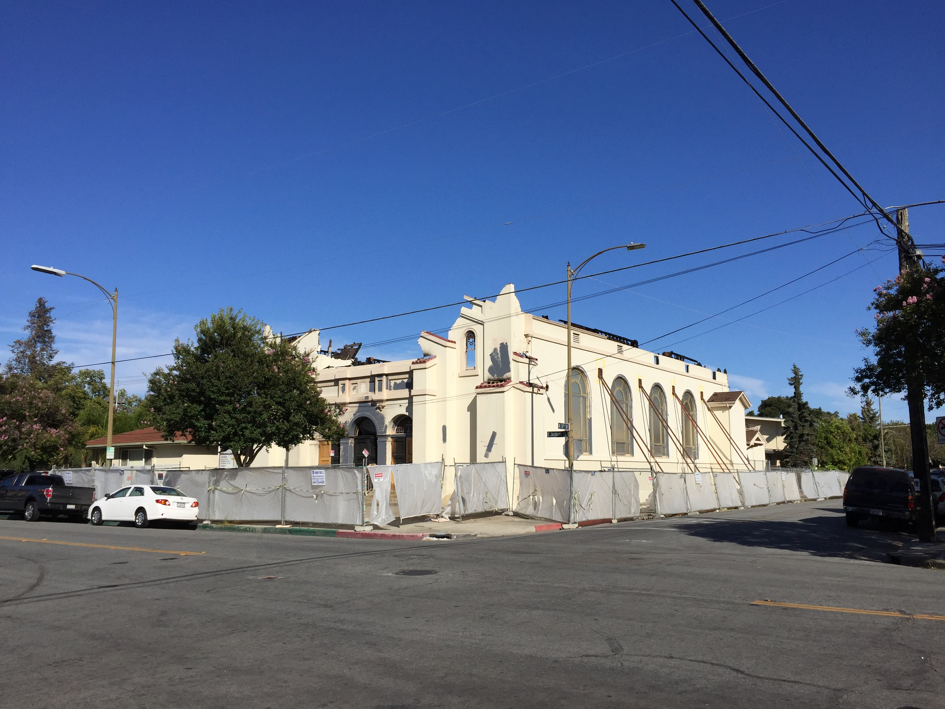 Holy Cross Church in San Jose, California, seen from the corner of East Jackson Street and North 12th Street, after a fire destroyed most of the original church building but before the remaining structure was demolished.